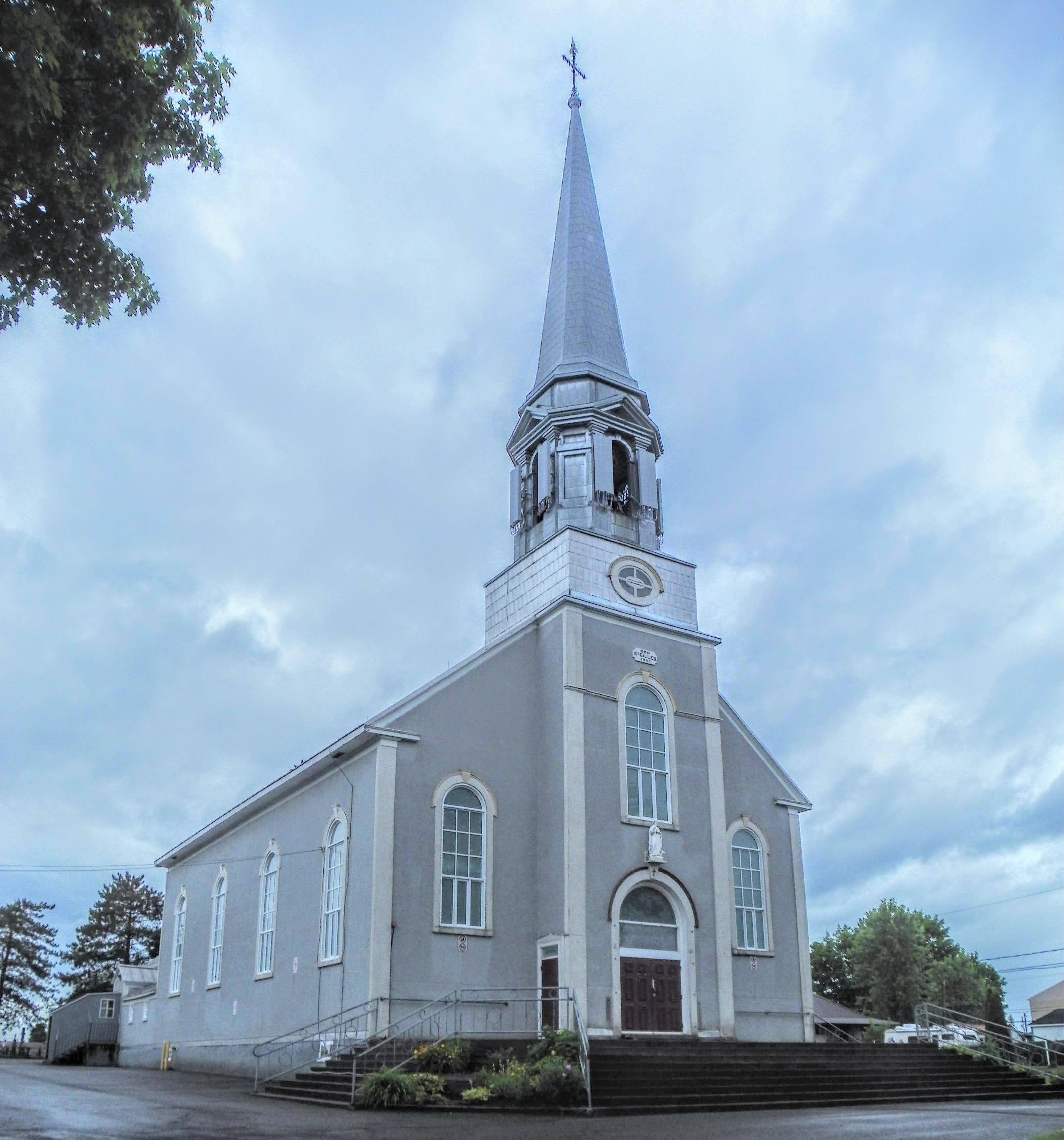 Saint-Gilles church in Saint-Gilles, Québec.